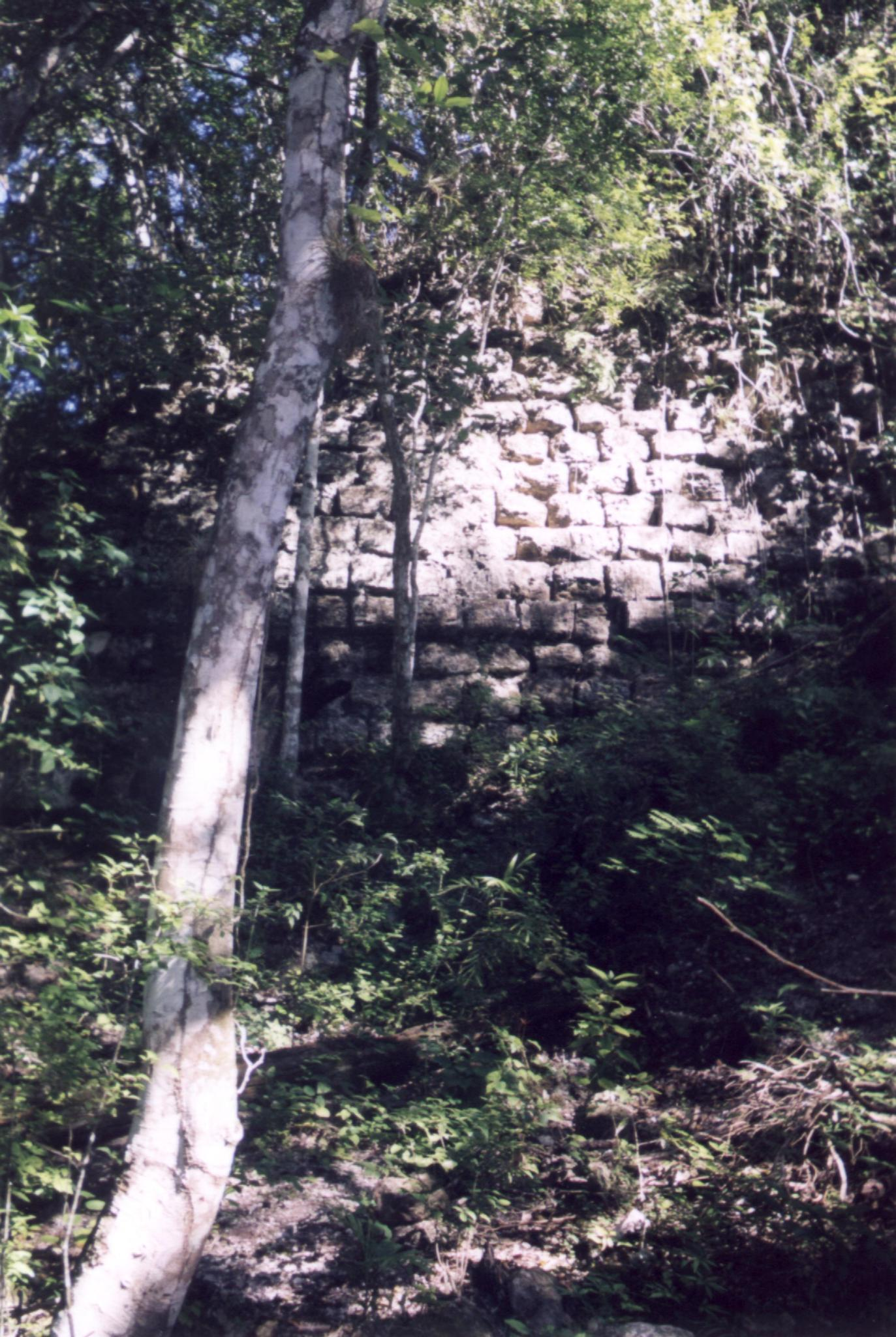 Stonework at the Maya site of El Mirador, Petén, Guatemala. Photo taken in 2000.